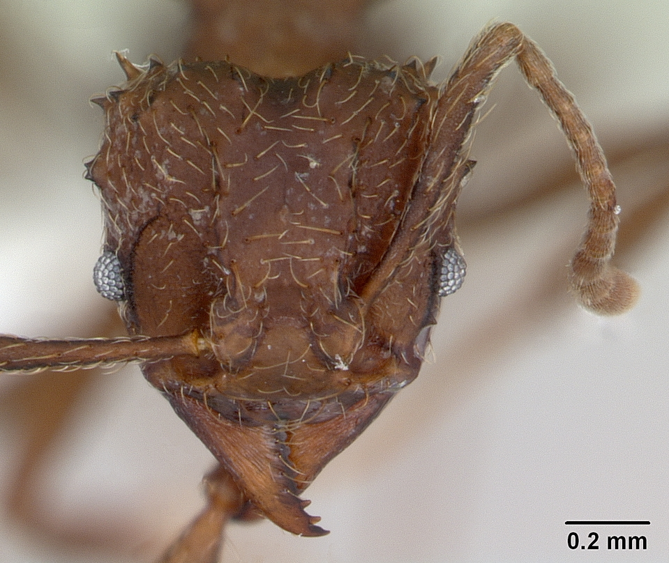 Head view of ant Acromyrmex crassispinus specimen casent0173793.